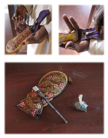 Traditional tobacco pouch with tobacco pipe popular with desert nomads such as the Maur and Tuareg across the African Sahel region. Colorfully decorated and made of camel leather, with several sections covered by fold-over flaps for tobacco, the pipe, a cleaning wire and cloth. Shown with pipe and a small sachet of tobacco as sold in the shops.